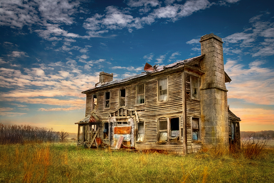 Bates-Geers house located north of Roby Missouri in rural Texas county and listed on the National Register of Historic Places.